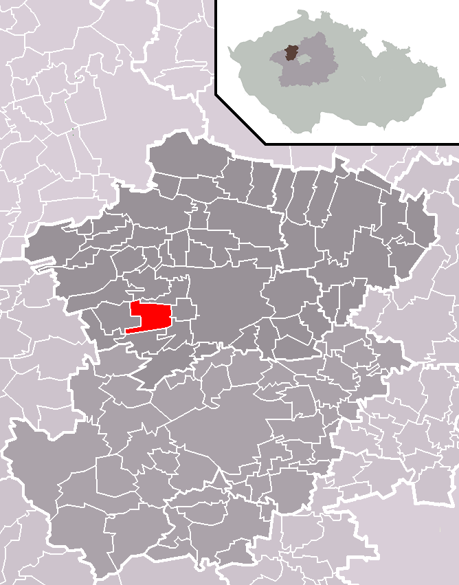 Location of Řisuty municipality within Kladno District and administrative area of Slaný as a Municipality with Extended Competence.